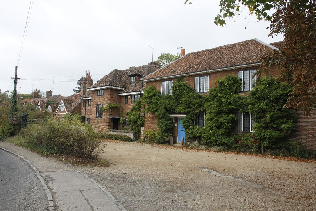 Houses on the corner